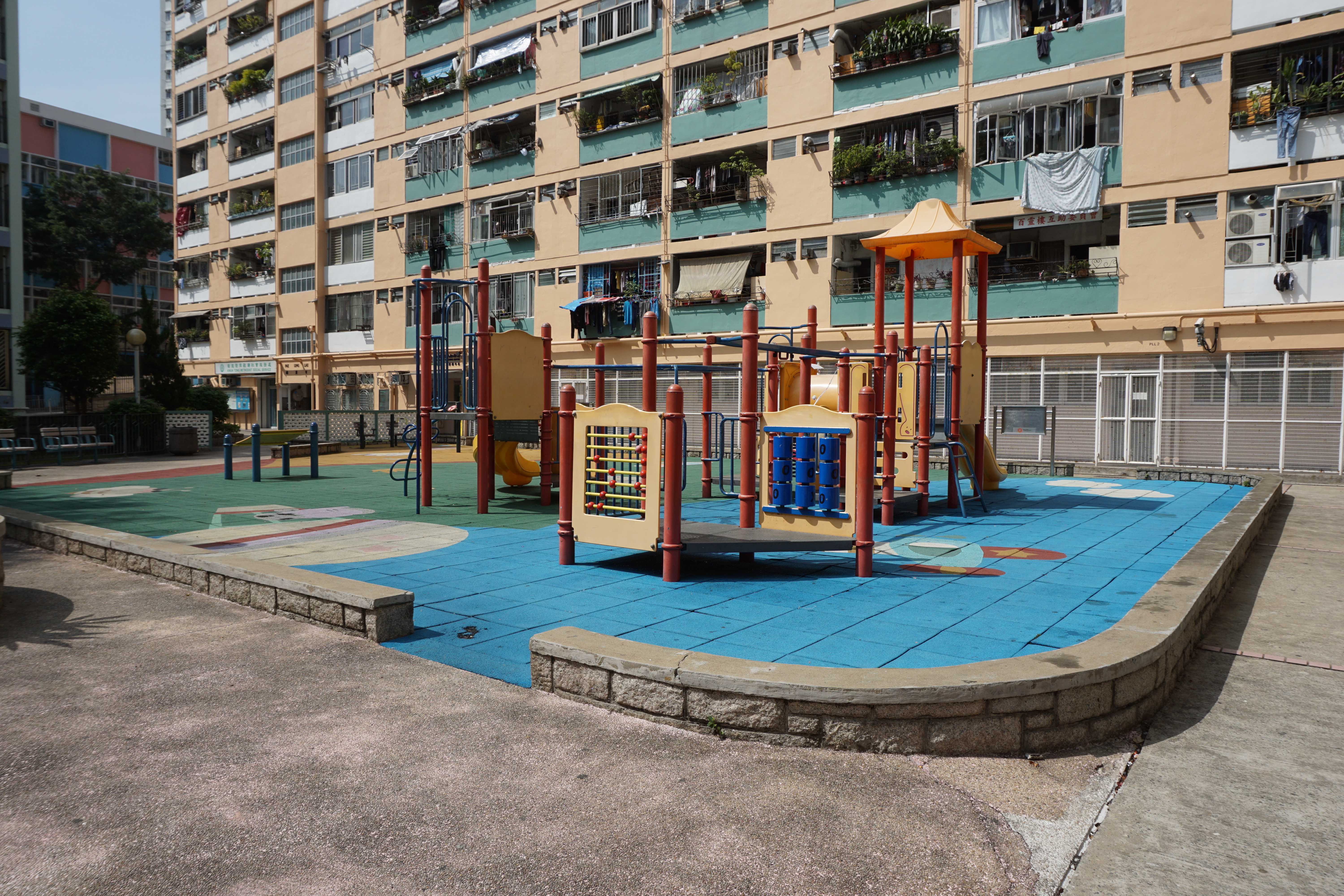 Kwun Tong Garden Estate in Ngau Tau Kok, Hong Kong.